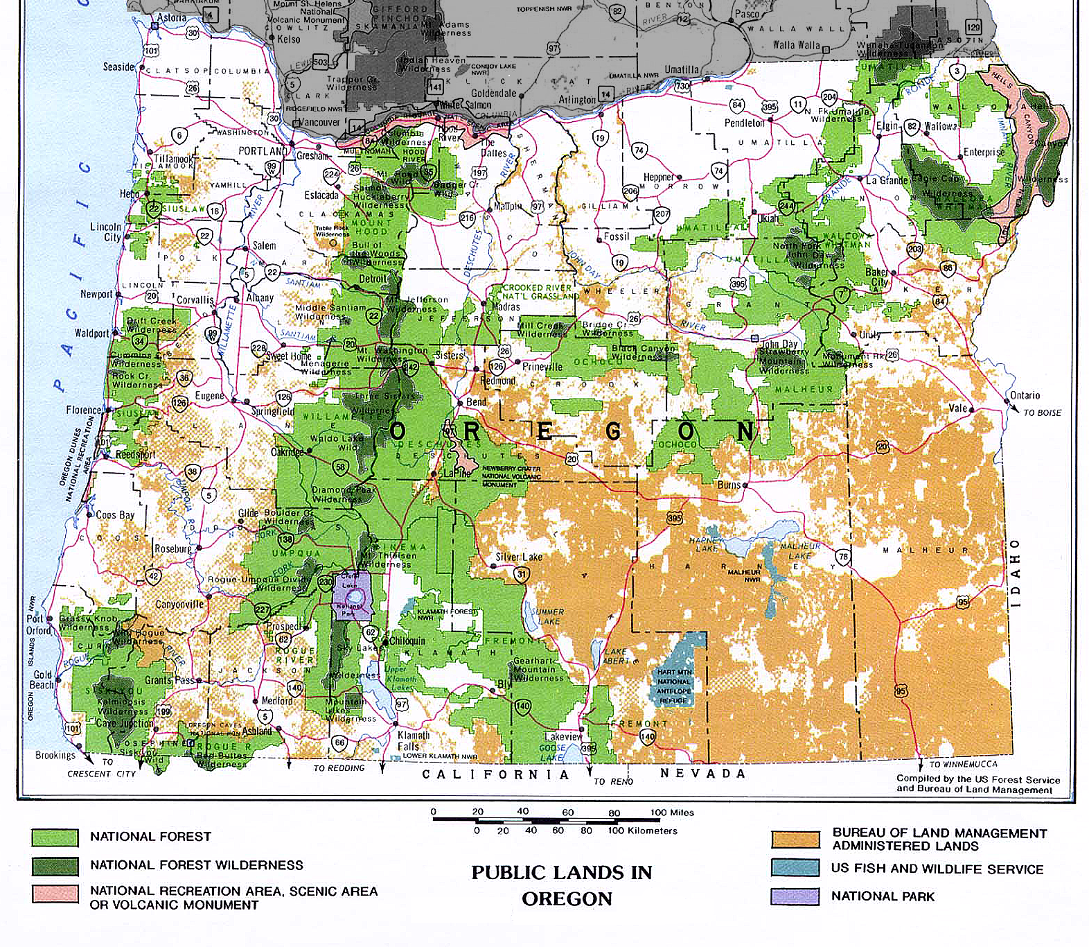 Map of public lands in the U.S. state of Oregon showing National Forests (light green), designated protected Wilderness (dark green), Bureau of Land Management lands (orange), US Fish and Wildlife Service (light blue), National Park (violet), National Recreation Area, Scenic Area, or Volcanic Monument (pink). The map is adapted from by deemphasizing Washington,adjusting the legend, and adjusting sharpness to overcome JPEG artifacts.